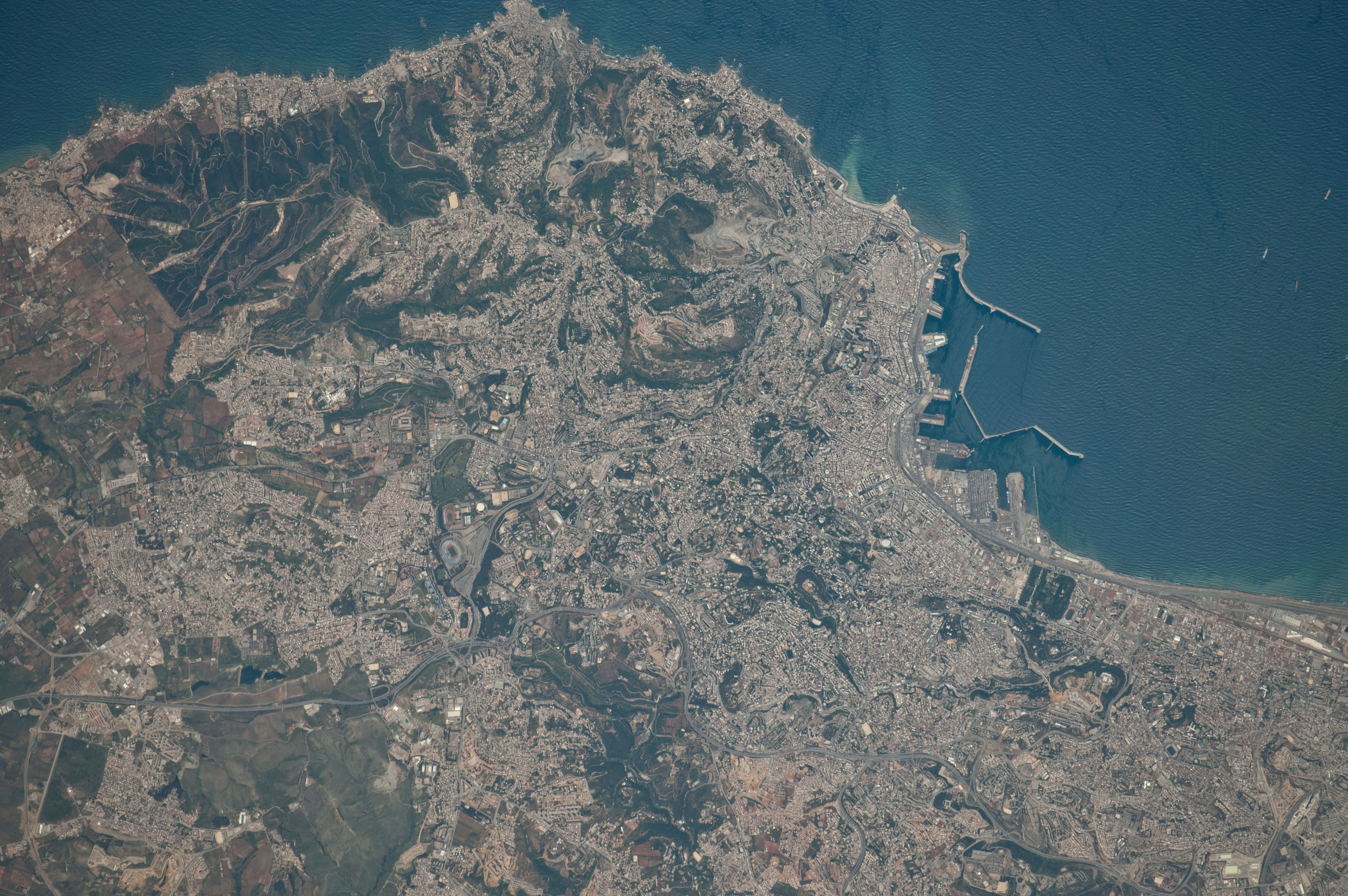 Astronaut Photo of Algiers, Algeria taken from the International Space Station (ISS) during Expedition 23 on May 17, 2009.